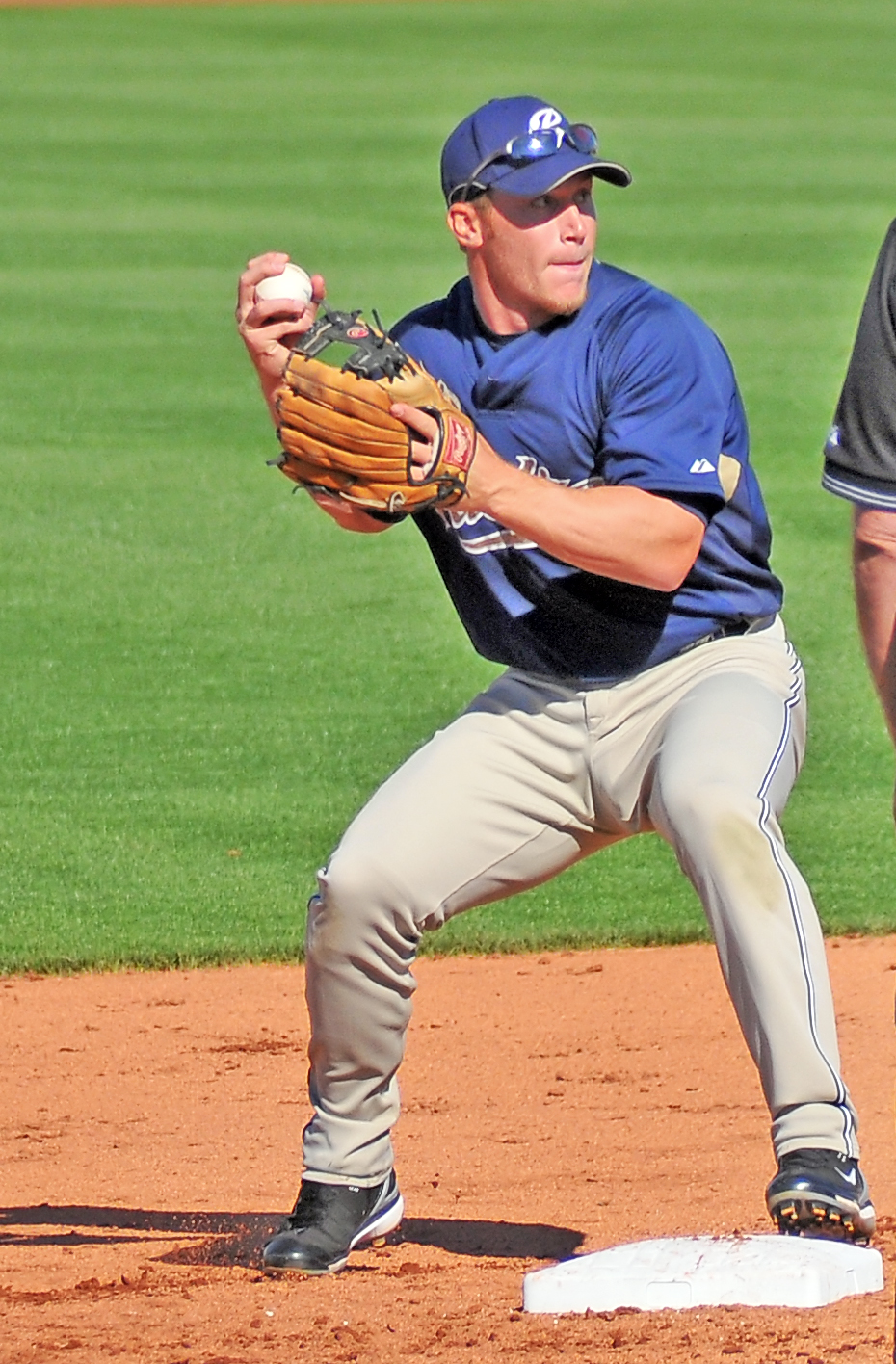 Matt Antonelli